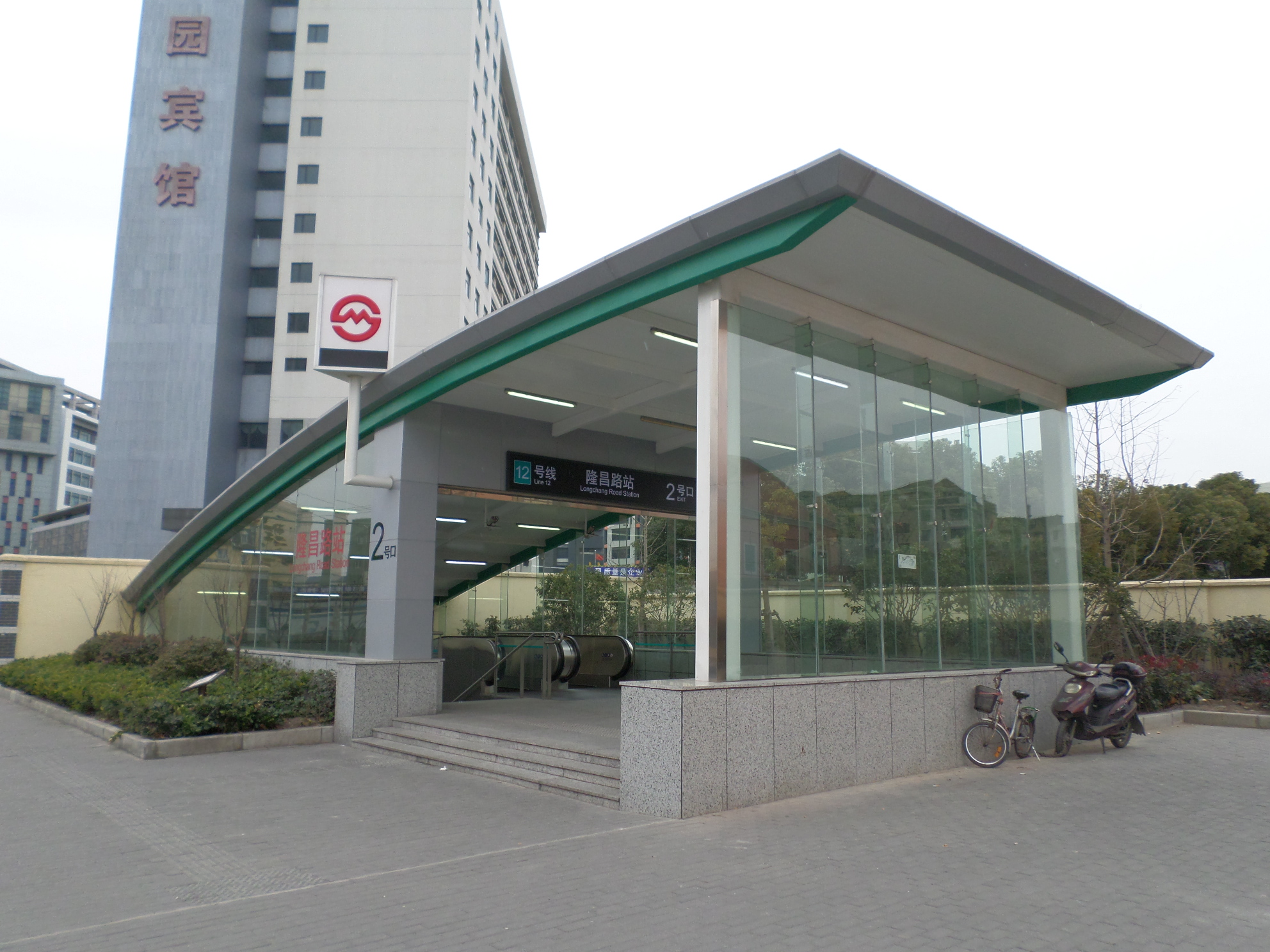 Longchang Road Station, Yangpu District, Shanghai, China